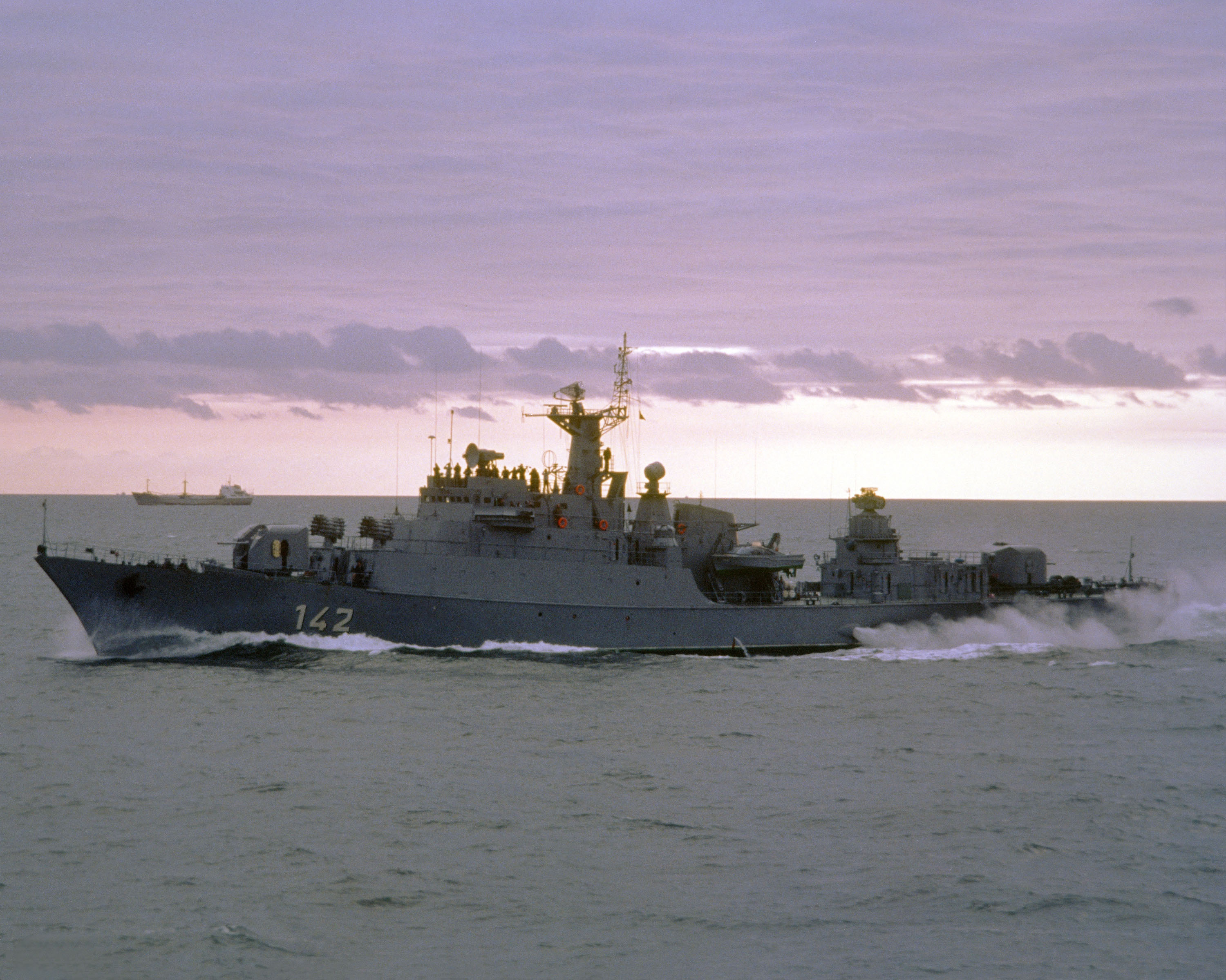 The East German Volksmarine frigate Berlin (142) underway near NATO ships participating in "Exercise BALTOPS '85".